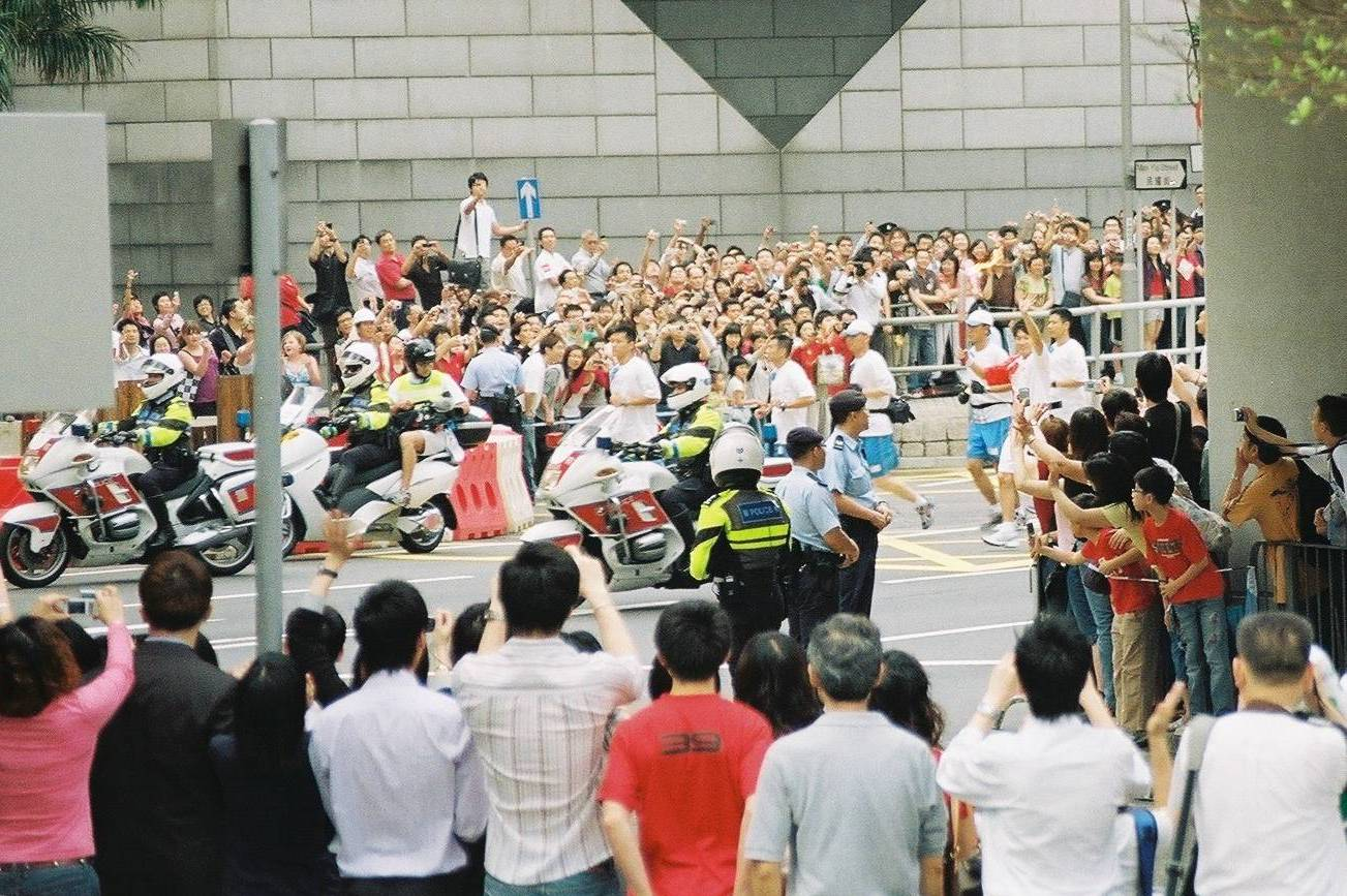 The Olympic torch in Central during the 2008 Olympic torch relay in Hong Kong.